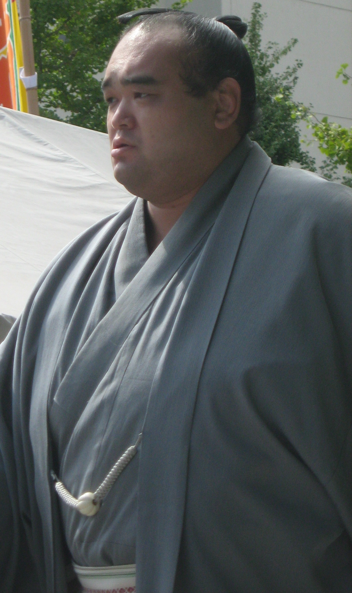 taken at 08 Sept. tournament